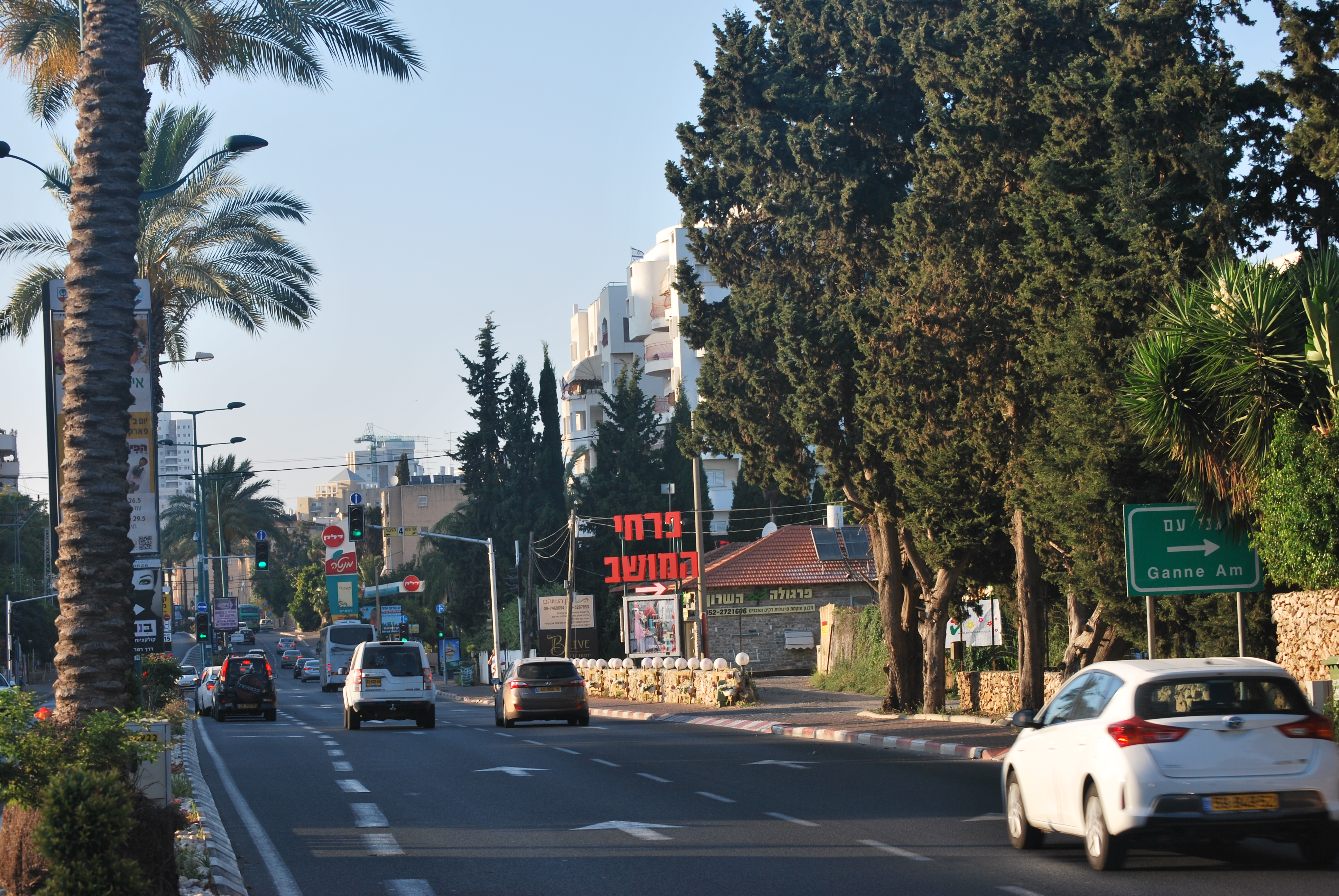 Main road in Hod Hasharon